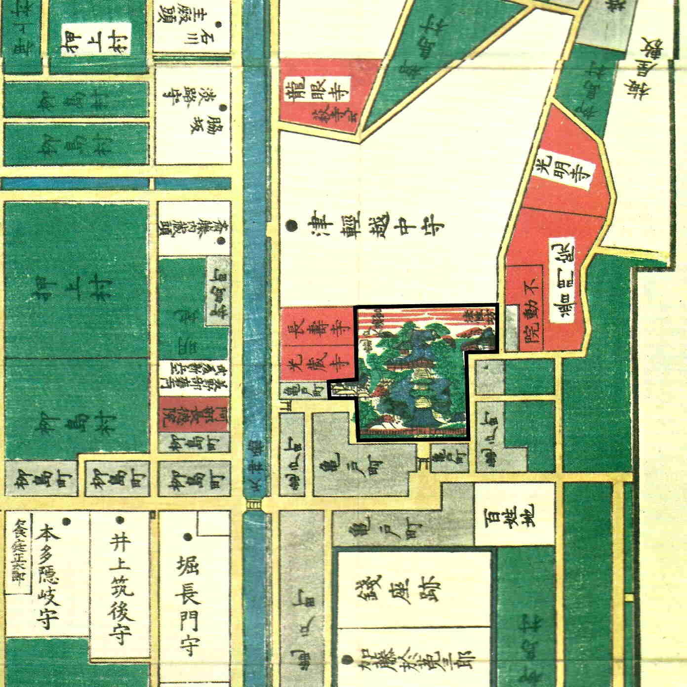 kiriezu map Honjo (detail)